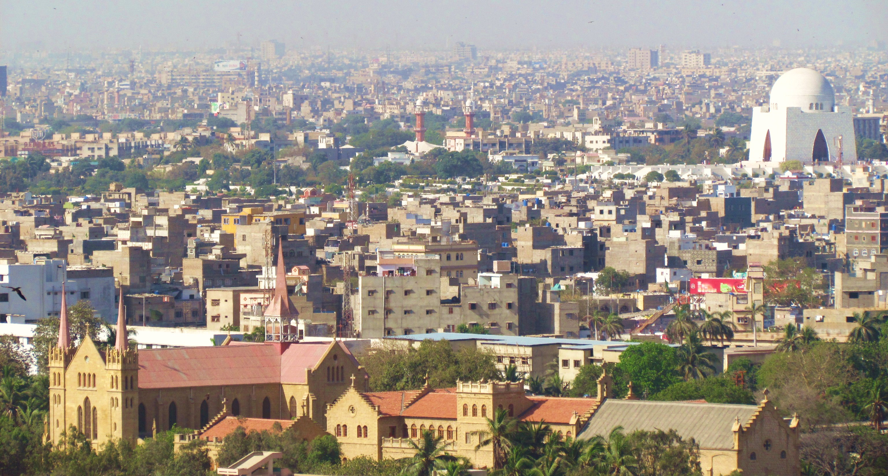 This picture was taken from the rooftop of Karachi's tallest hotel building "The Avari Hotel". Two of Karachi's most prominent landmarks can be seen in this picture. The St Patrick Cathedral on the lower left hand corner , but the most standout landmark in this picture is the Mausoleum of the Quaid e Azam the founder of the nation far in the right hand corner . This is a photo of a monument in Pakistan identified as the SD-36